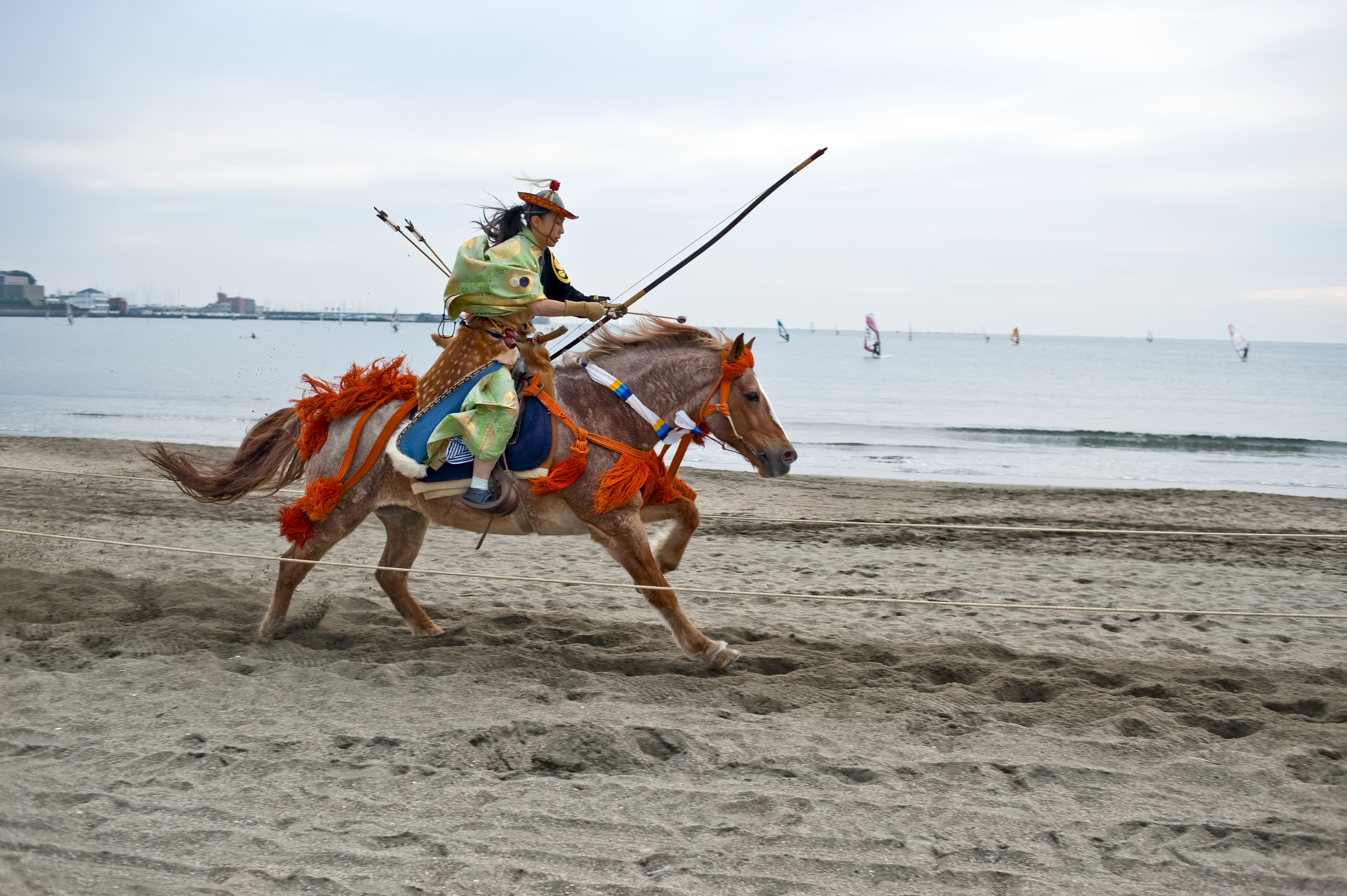 Yabusame in Zushi, November 2009